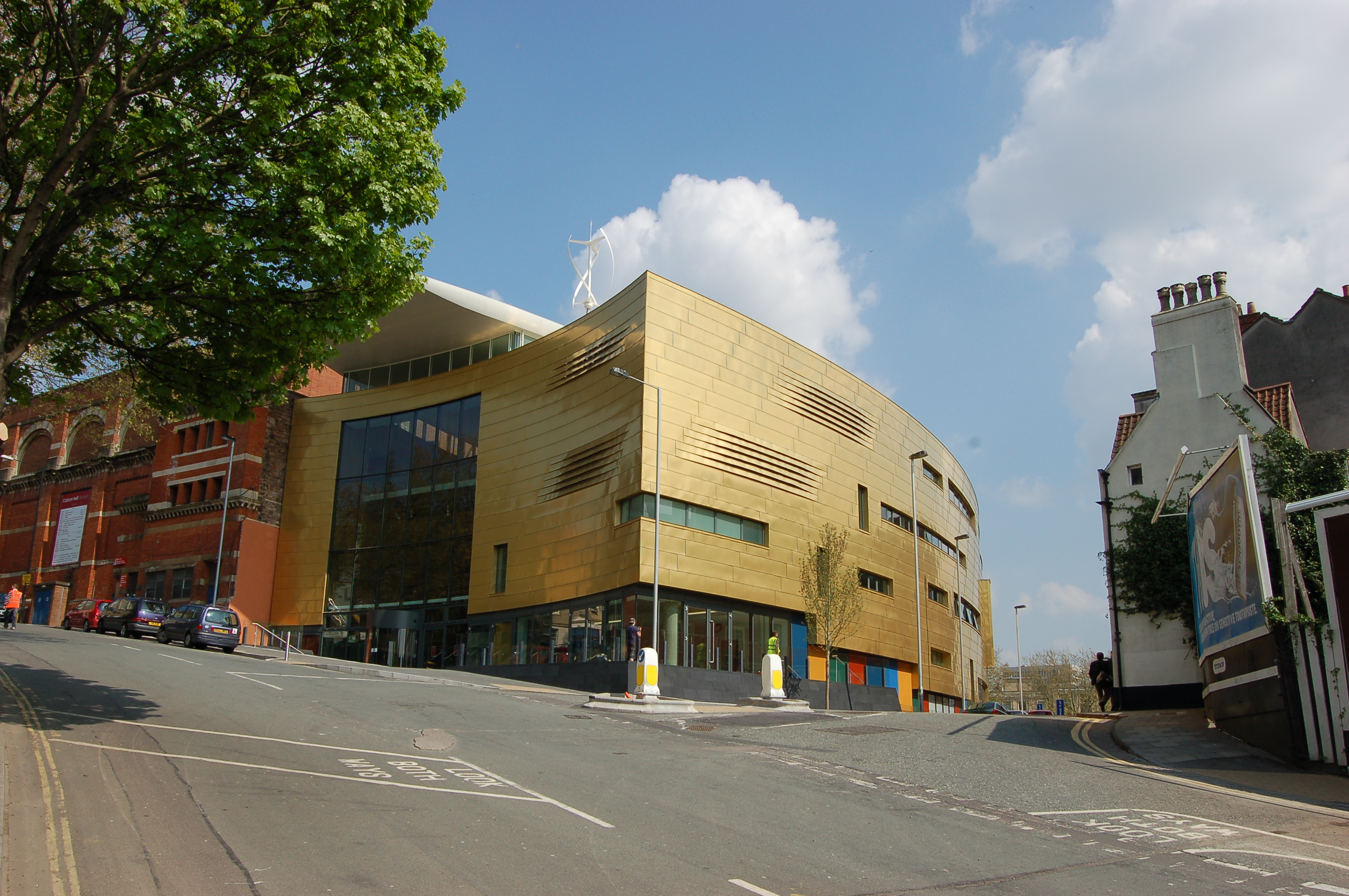 Photograph of the new foyer at Colston Hall, Bristol, UK.